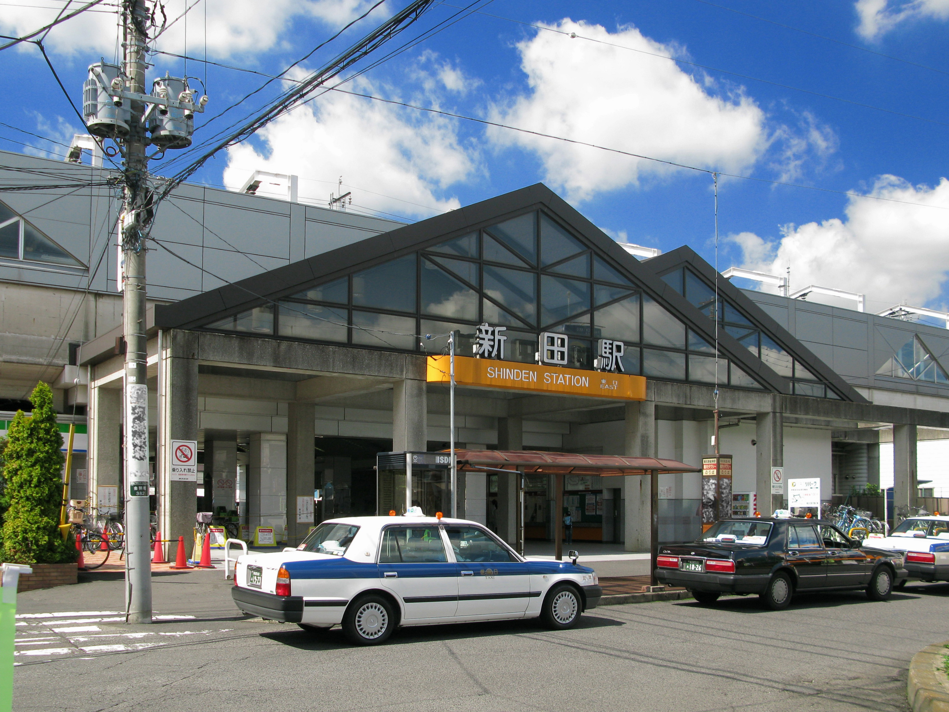 The east entrance to Shinden Station in Saitama Prefecture, Japan